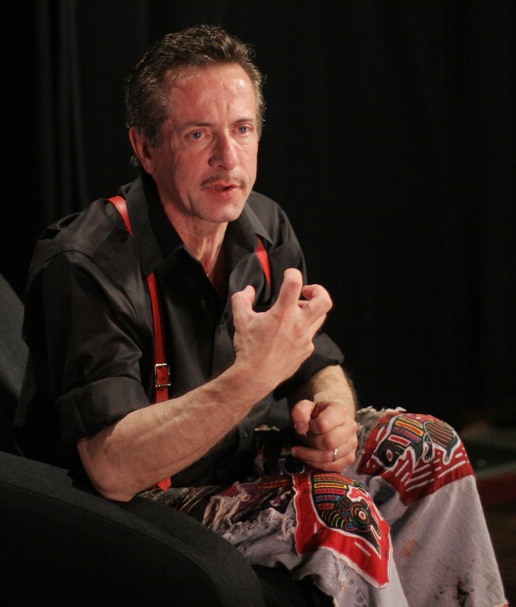 Author Clive Barker talks about what makes him tick Nov. 5, 2007 at the EMP/ Sci Fi Museum in Seattle.